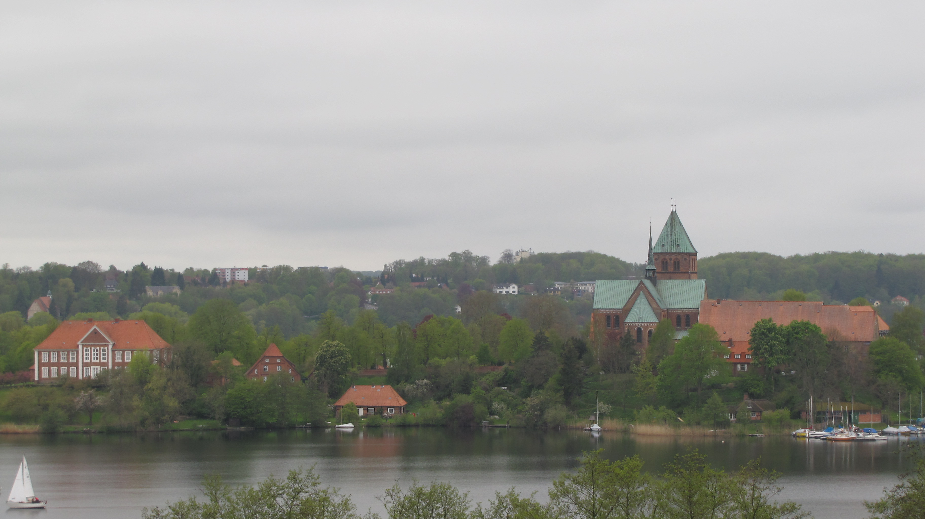 View of Ratzeburg Cathedral from Bäk